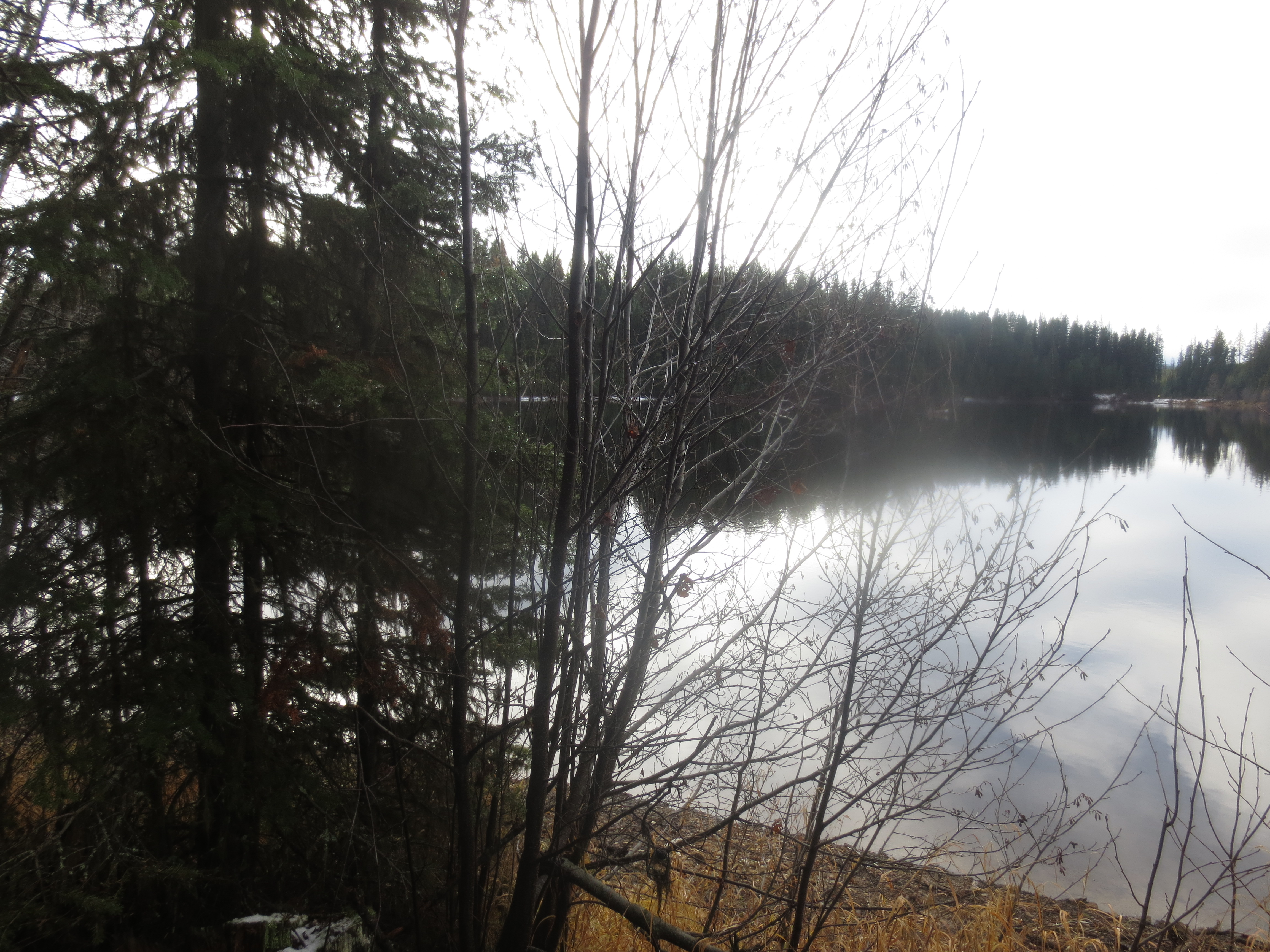 A Calm Rainy Morning in Late Autumn at Browne Lake Provincial Park